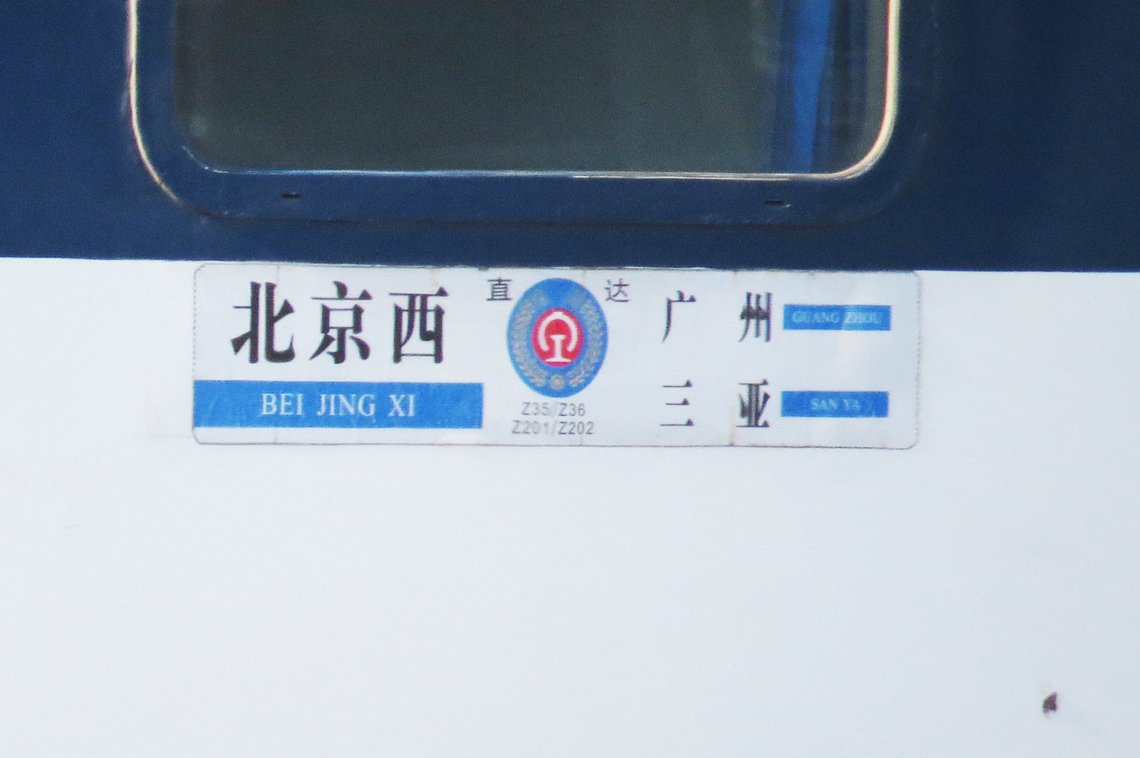 Beijing to Guangzhou and Sanya.